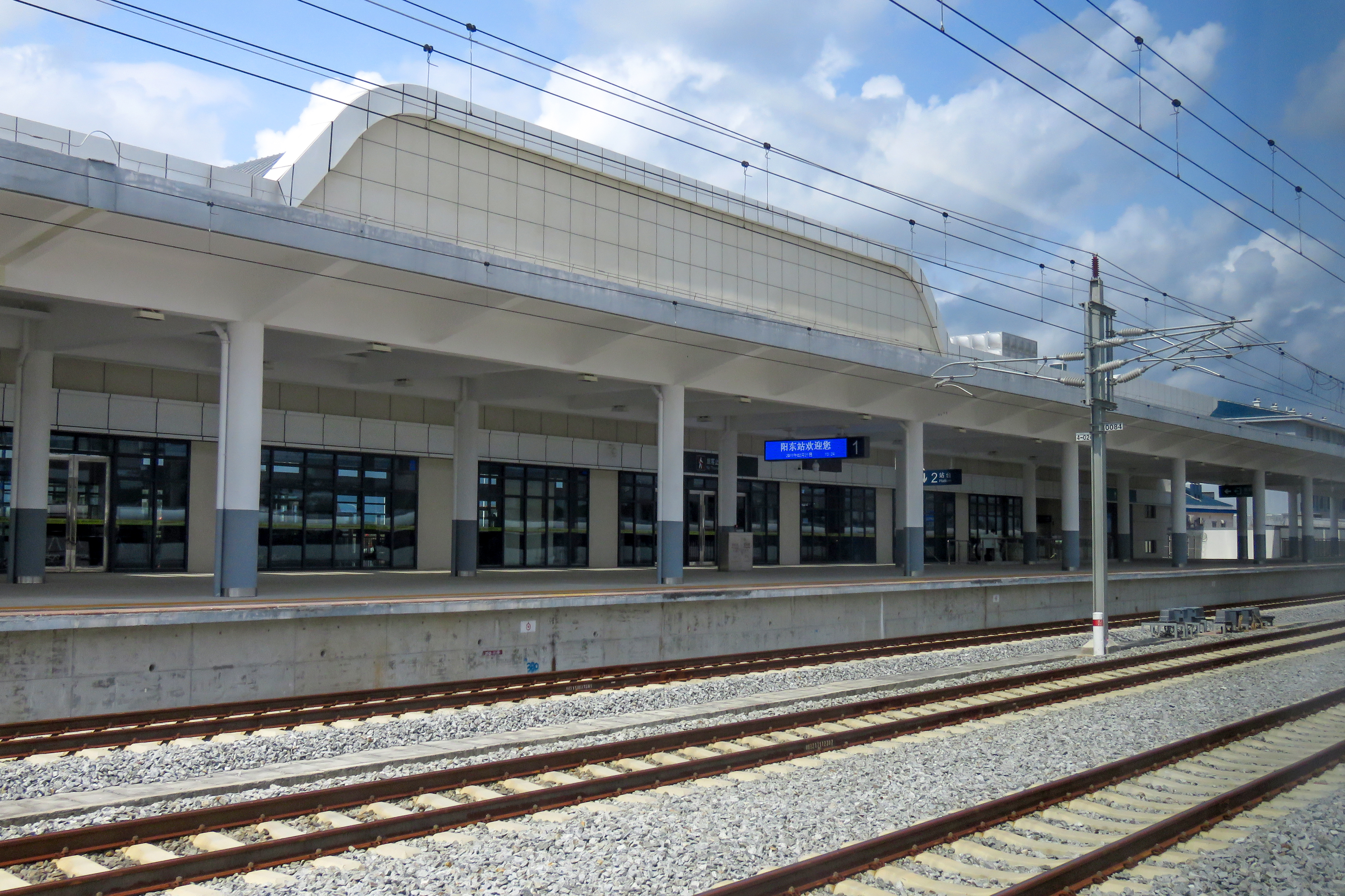 Taken from D7557 which has a stopover here.